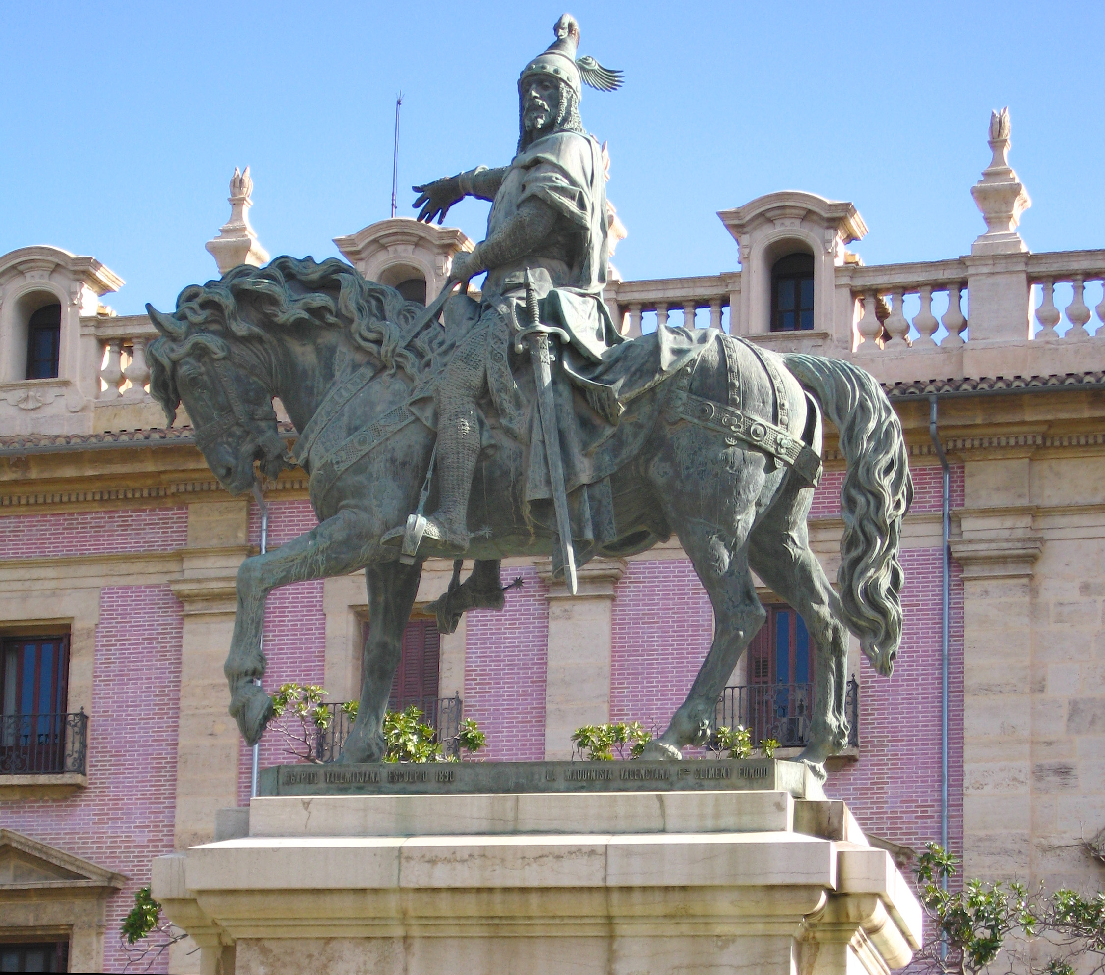 Monument to James I of Aragon, the Conqueror (1208–1276), by Agapit Vallmitjana, in the city of Valencia (Land of Valencia, Spain).